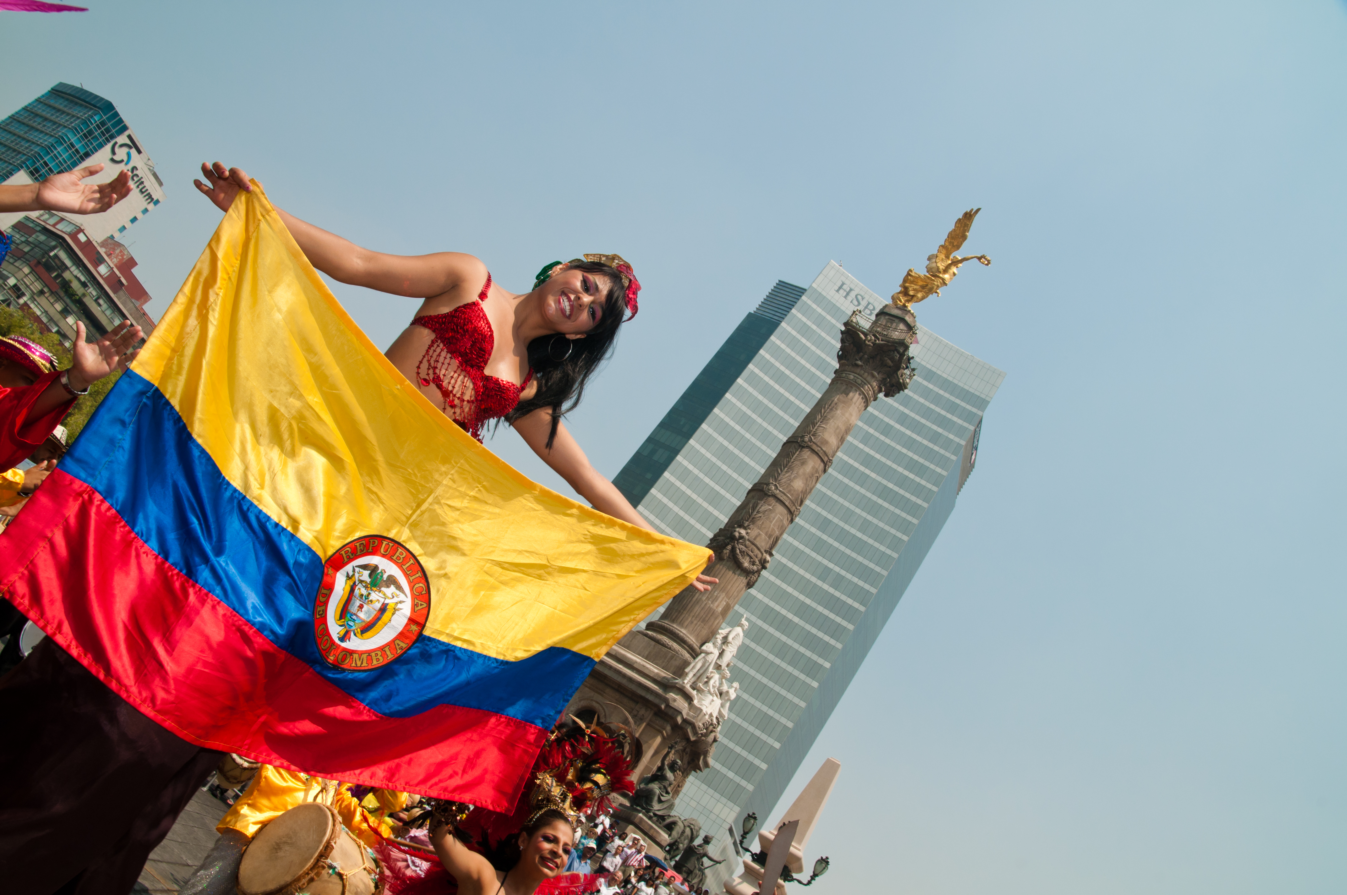 Cultures Fair Friends of Mexico City.